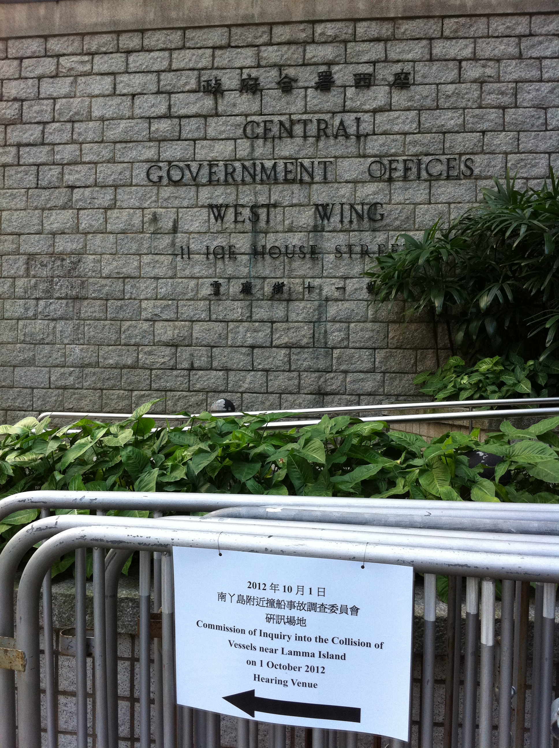 南丫島撞船事故 Commission of Inquiry into the Collision of Vessels near Lamma Island on 1st October 2012.